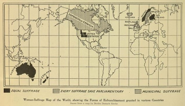 Map published in the Harper's Magazine's issue of 25 April 1908 showing the situation of women's suffrage in the world at that time. In Canada, were municipal suffrage was regulated by each province, women's suffrage was limited in many cases to widows and unmarried women.